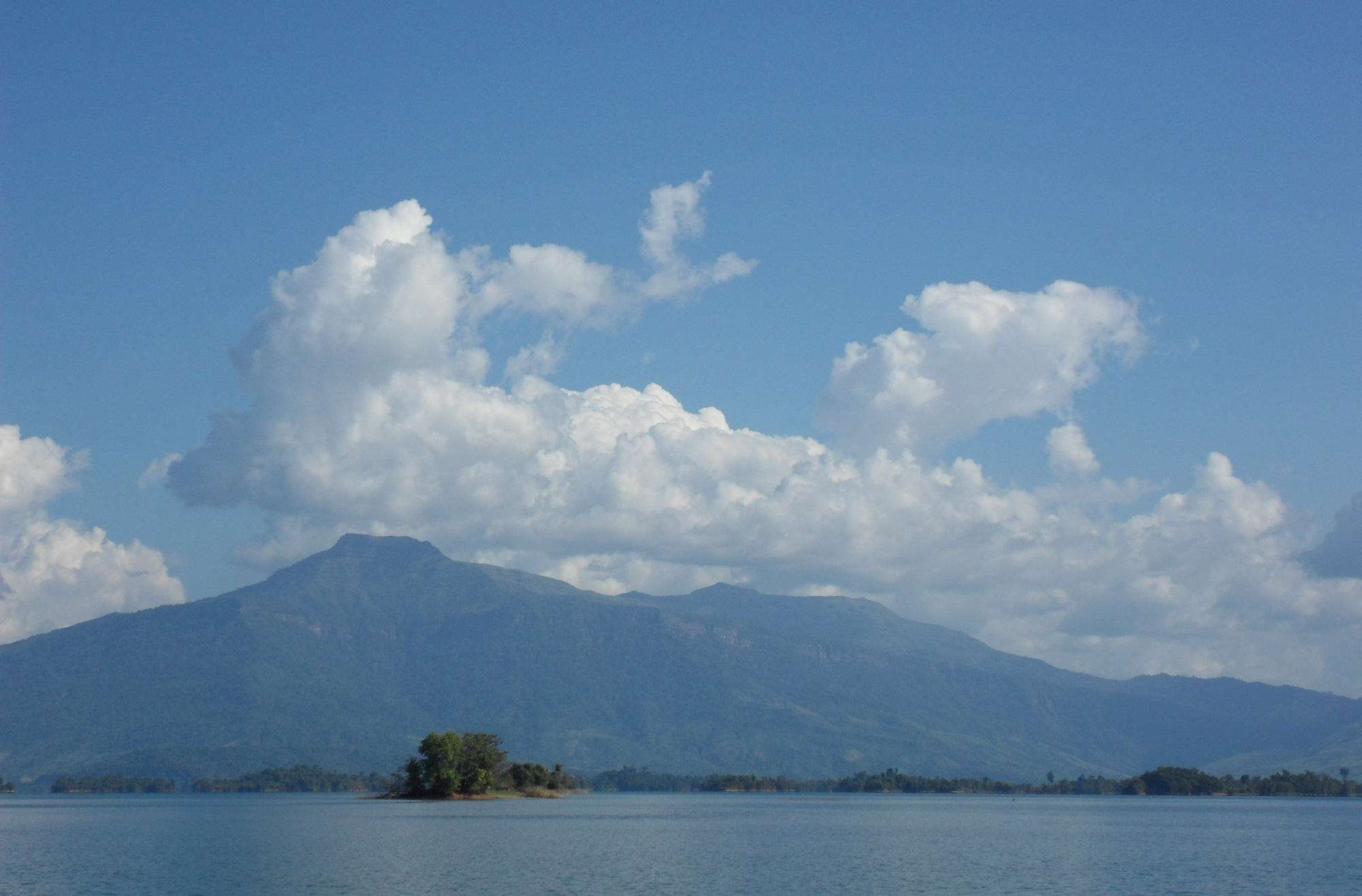 The Phou Bia (it is the small pyramidion in the background) seen from Nam Ngum Lake (reservoir) on the Nam Ngum River — Laos.